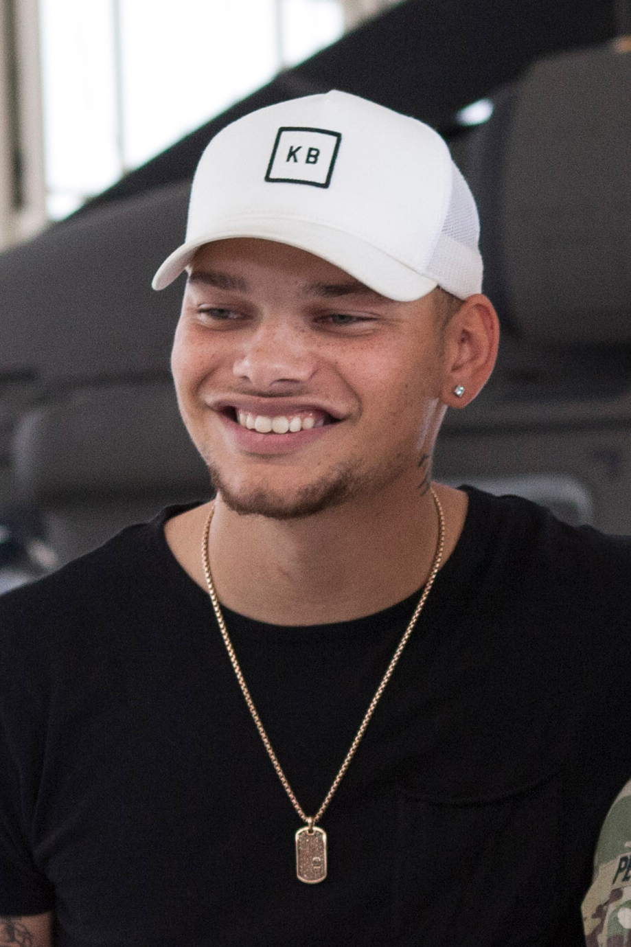 Country music singer Kane Brown takes a photo with a California Army National Guard soldier, Sept. 7, 2018, in a UH-60 Black Hawk hangar at Joint Forces Training Base, Los Alamitos, California. Brown filmed the video for his new song, "Homesick," in the hangar earlier in the morning. (U.S. Air National Guard photo by Senior Airman Crystal Housman)